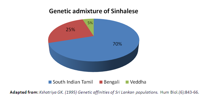 Author: Produced it myself using data from source. Source: Kshatriya GK. (1995) Genetic affinities of Sri Lankan populations. Hum Biol.(6):843-66.